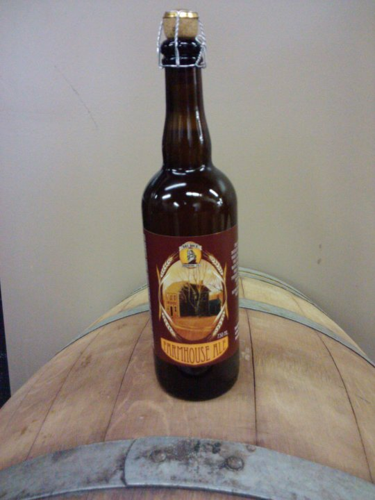 DDBC Farmhouse Ale Saison Bottle